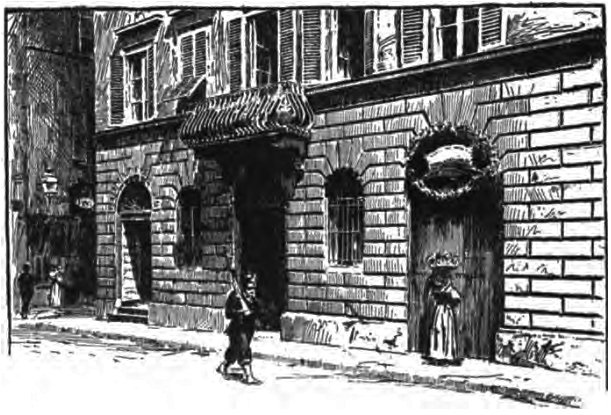 Depiction of Amerigo Vespucci's birthplace in Florence, Italy. Black-and-white illustration. From The Historians' History of the World Volume IX page 645.